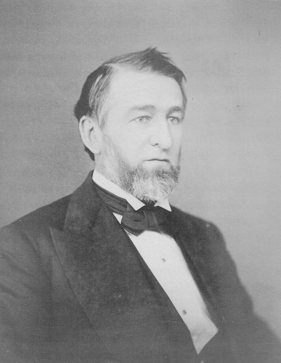 A photographic portrait of Elijah C. Wadhams, elected first Burgess of Plymouth, PA in 1866.